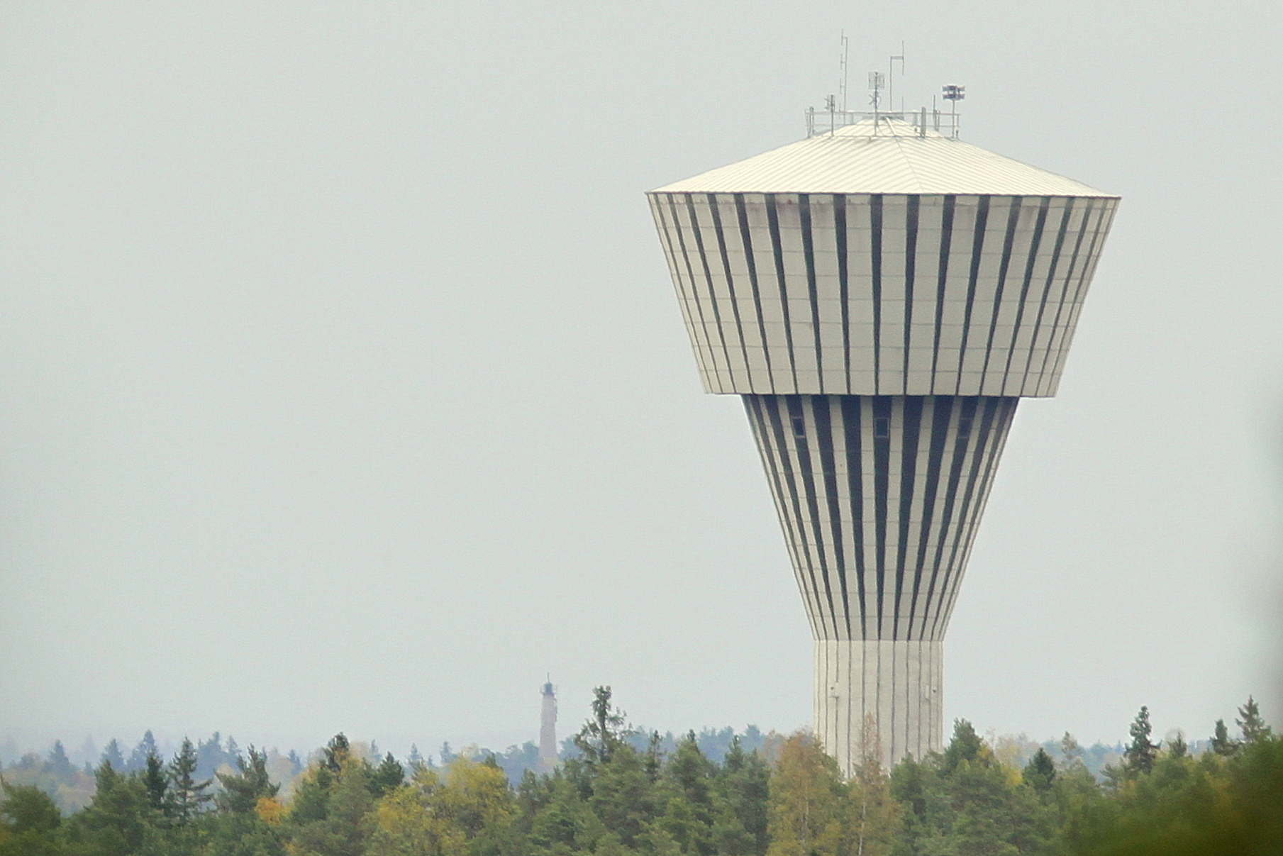 Raisio water tower is a water tower in Raisio, Finland.